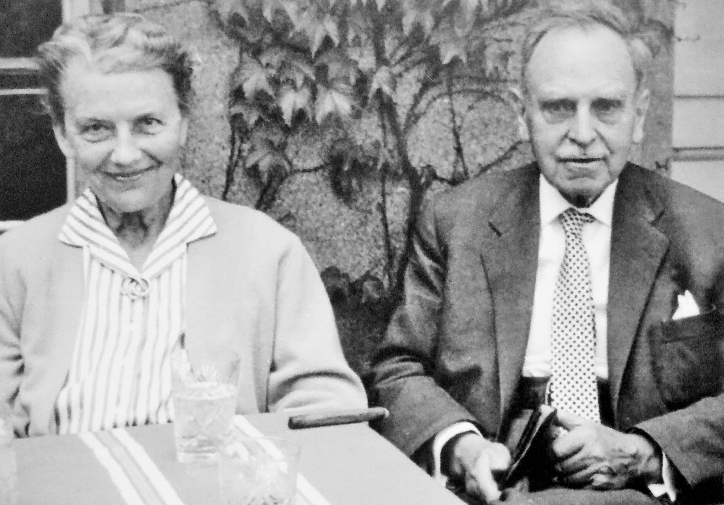 Edith and Otto Hahn, 1959